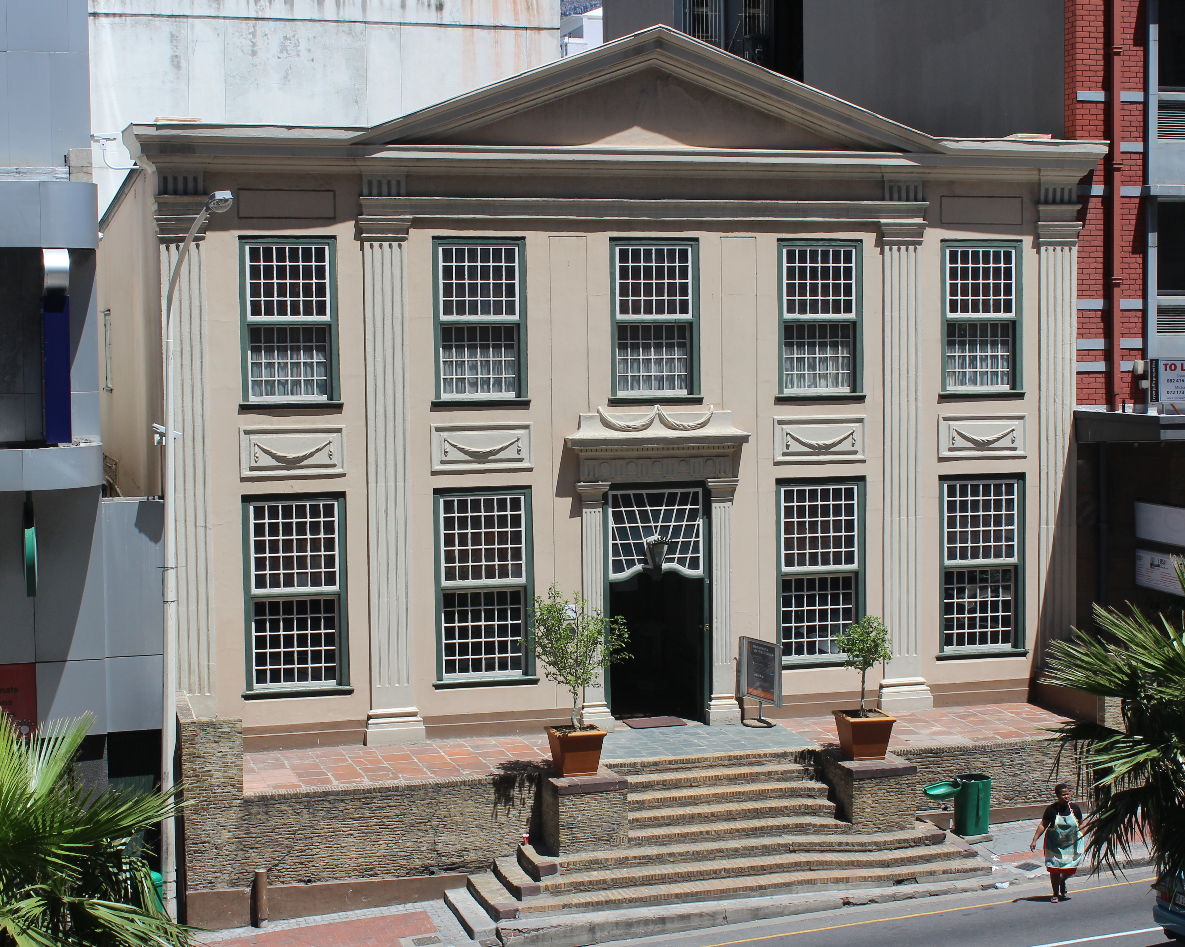 The Koopmans-de Wet House is a historic residence in Strand Street, Cape Town. It was originally built in 1701 and the current facade dates from about 1780. Marie Koopmans-de Wet (1834 - 1906), a prominent Capetownian gave her name to the house. The house became part of the South African Museum in 1913 and was declared a National Monument in 1940.